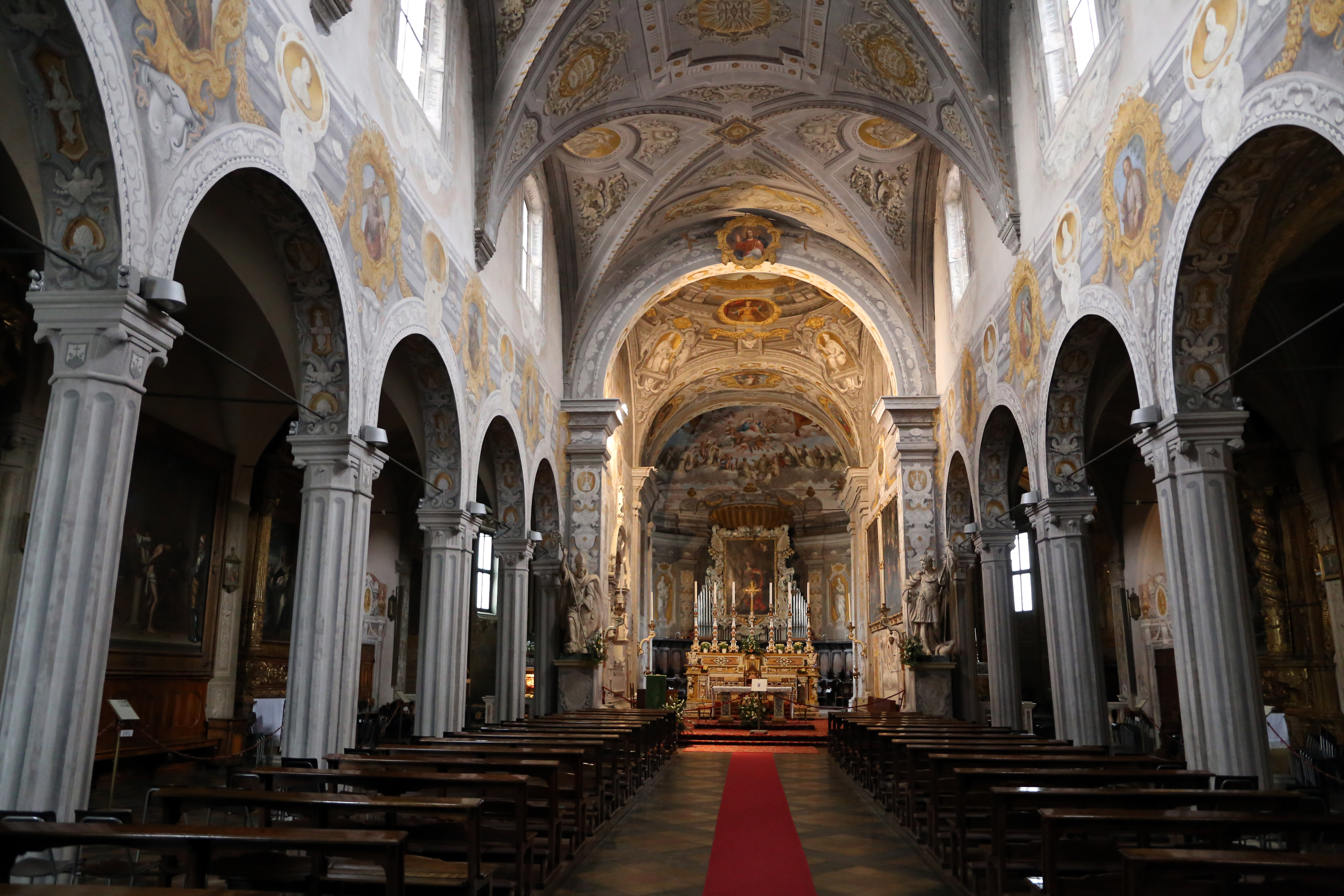 San Giorgio fuori le Mura (Ferrara)